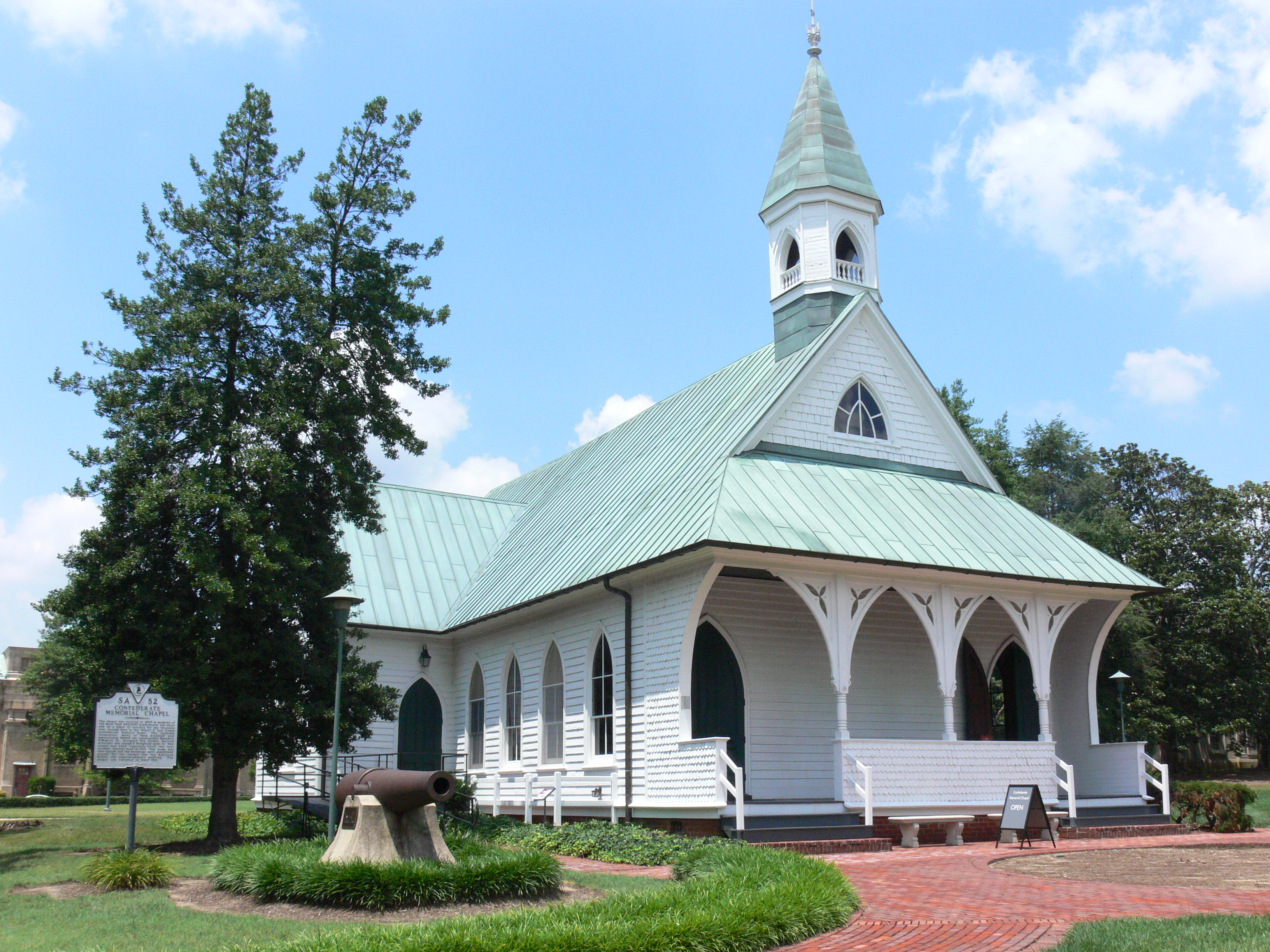 The Confederate Memorial Chapel on Grove Avenue, in Richmond, Virginia; on the National Register of Historic Places.